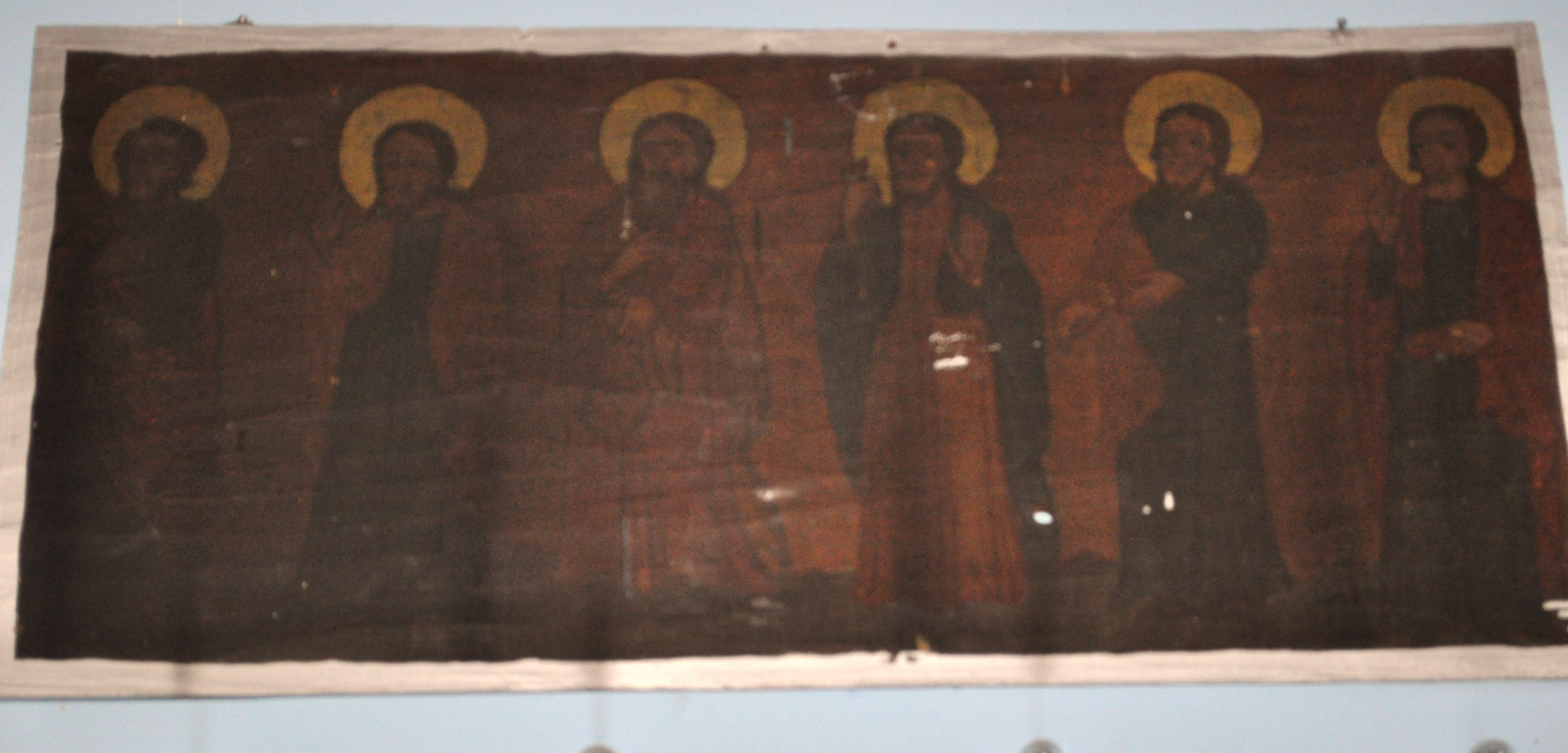 Wooden church in Baia, Arad county, Romania